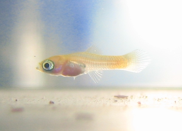 1 day old fry of Swordtail (Xiphophorus helleri)